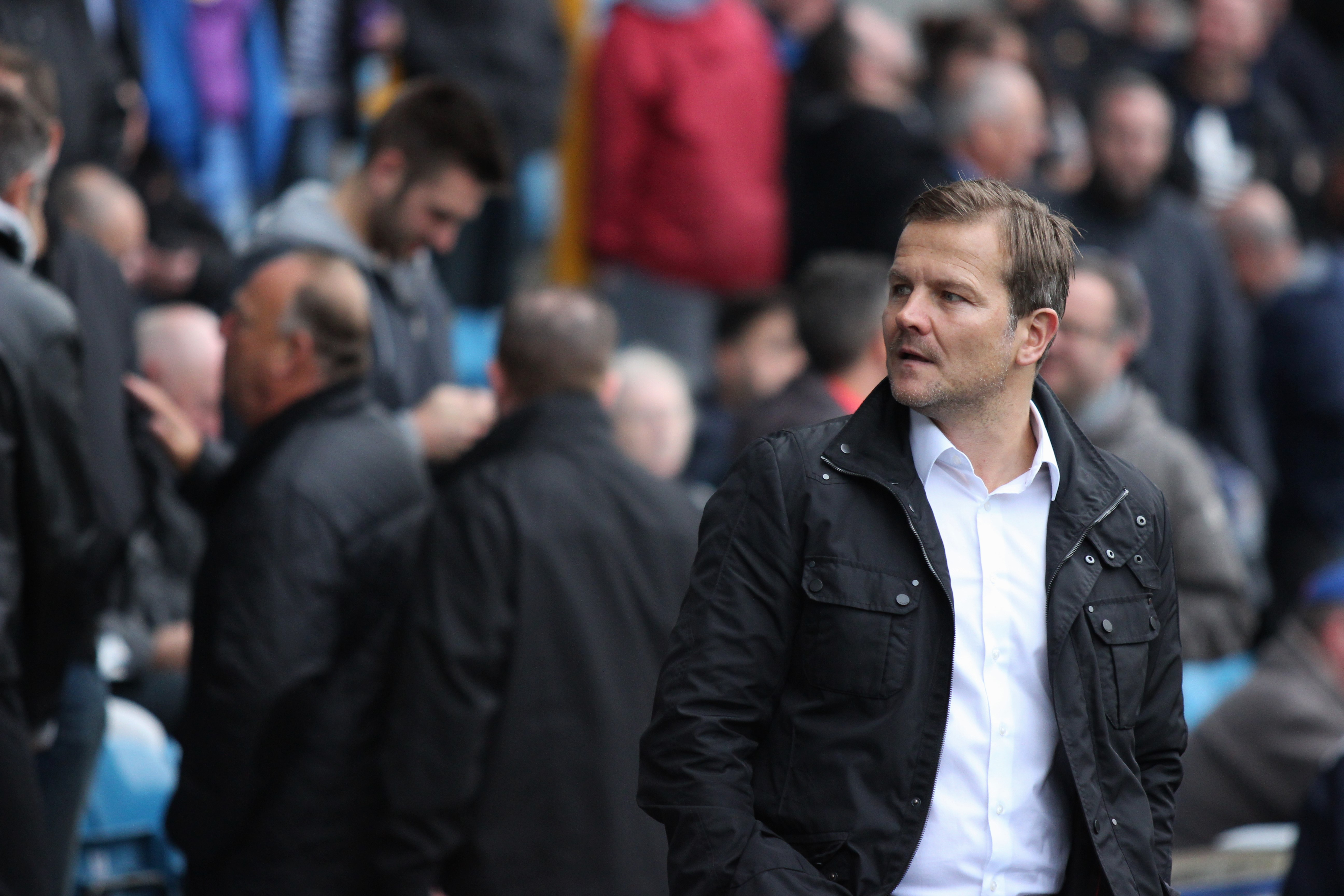 Swindon Town manager Mark Cooper before the game against Millwall.